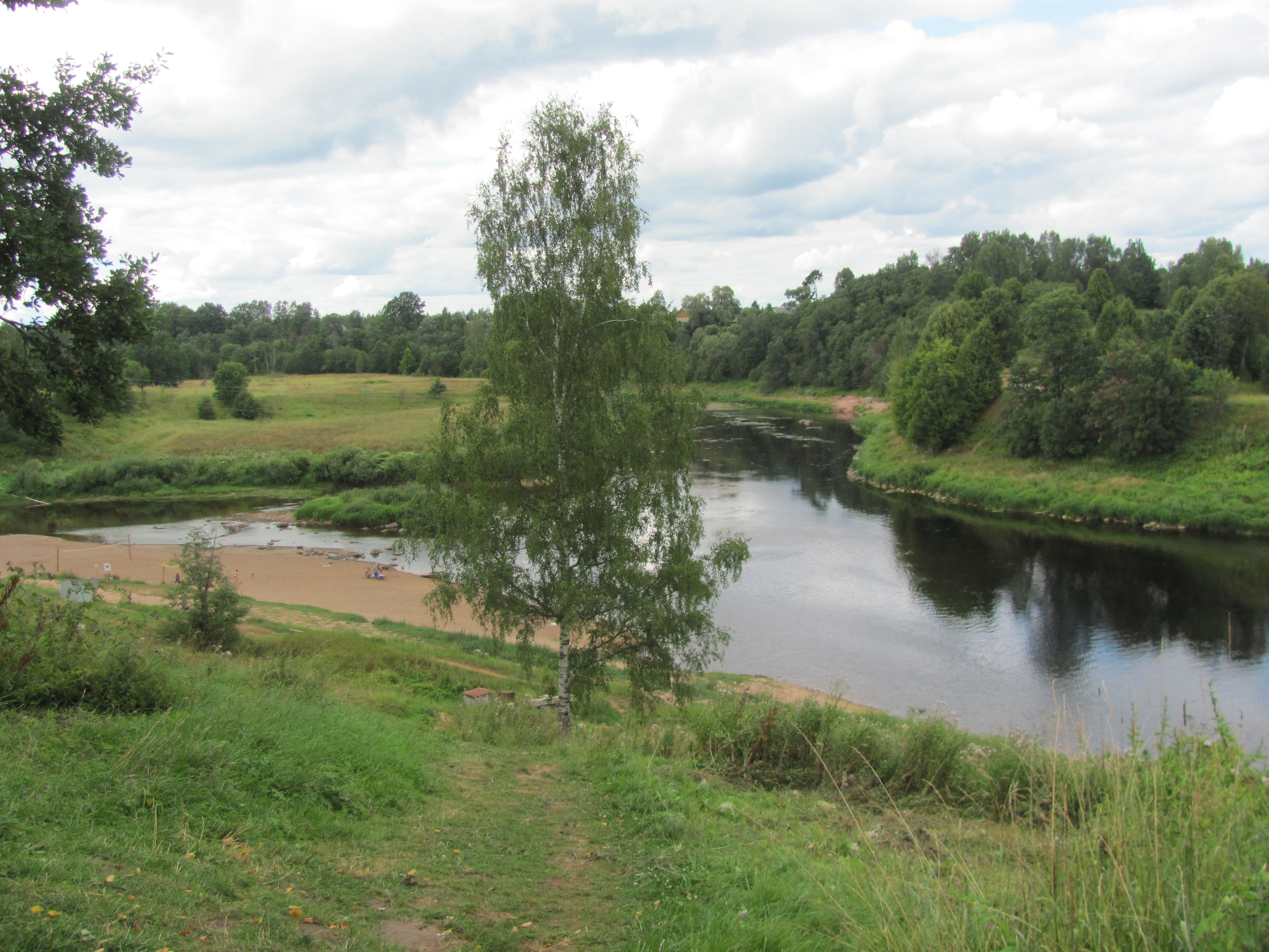 Lovat and Kunya (left) rivers in Holm, Novgorod oblast, Russia